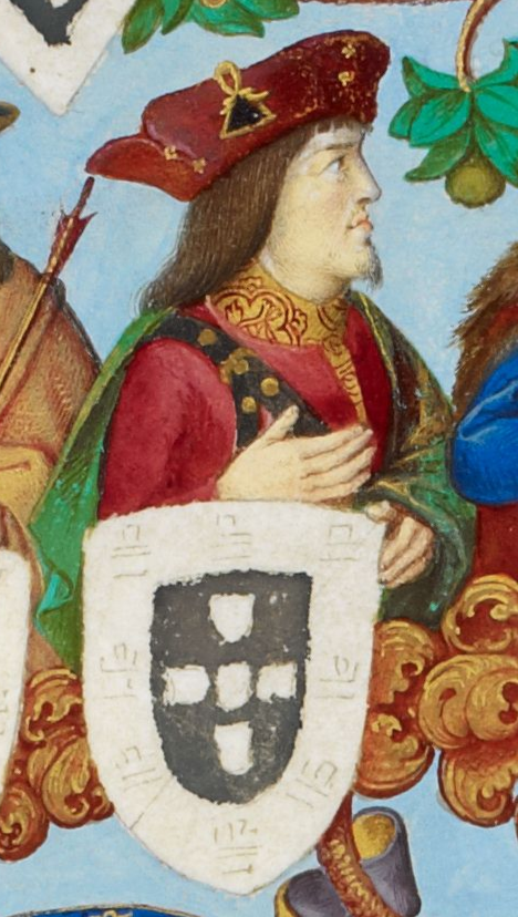 D. John Alfonso (1280-1325), Lord of Lousã, in a 16th century miniature.